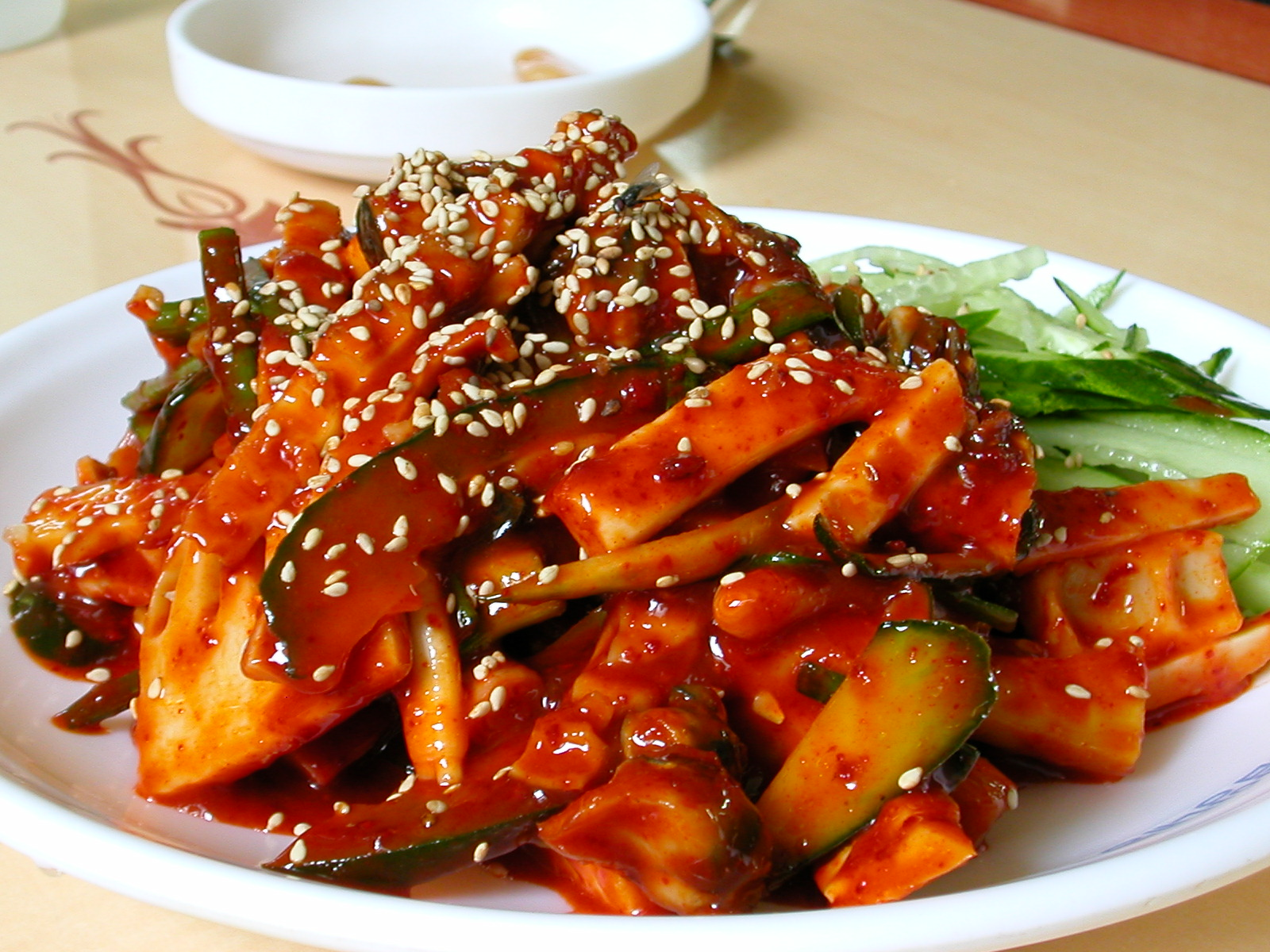 Juksunhoe (죽순회), marinated bamboo shoot in gochujang-based sauce (chili pepper paste and vinegar)